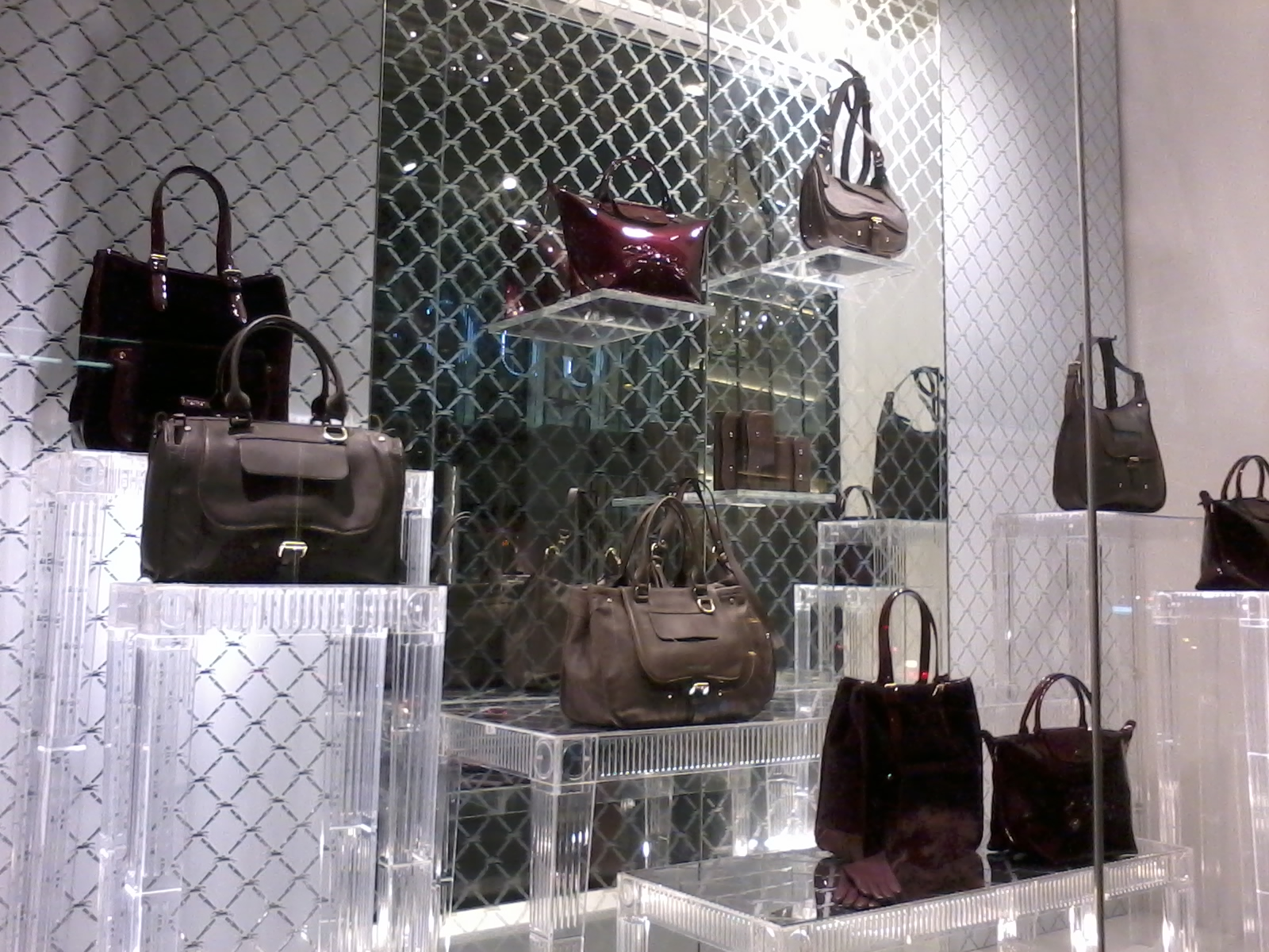 LongChamp clothing shop at Duddell Street, Queen's Road Central, Hong Kong